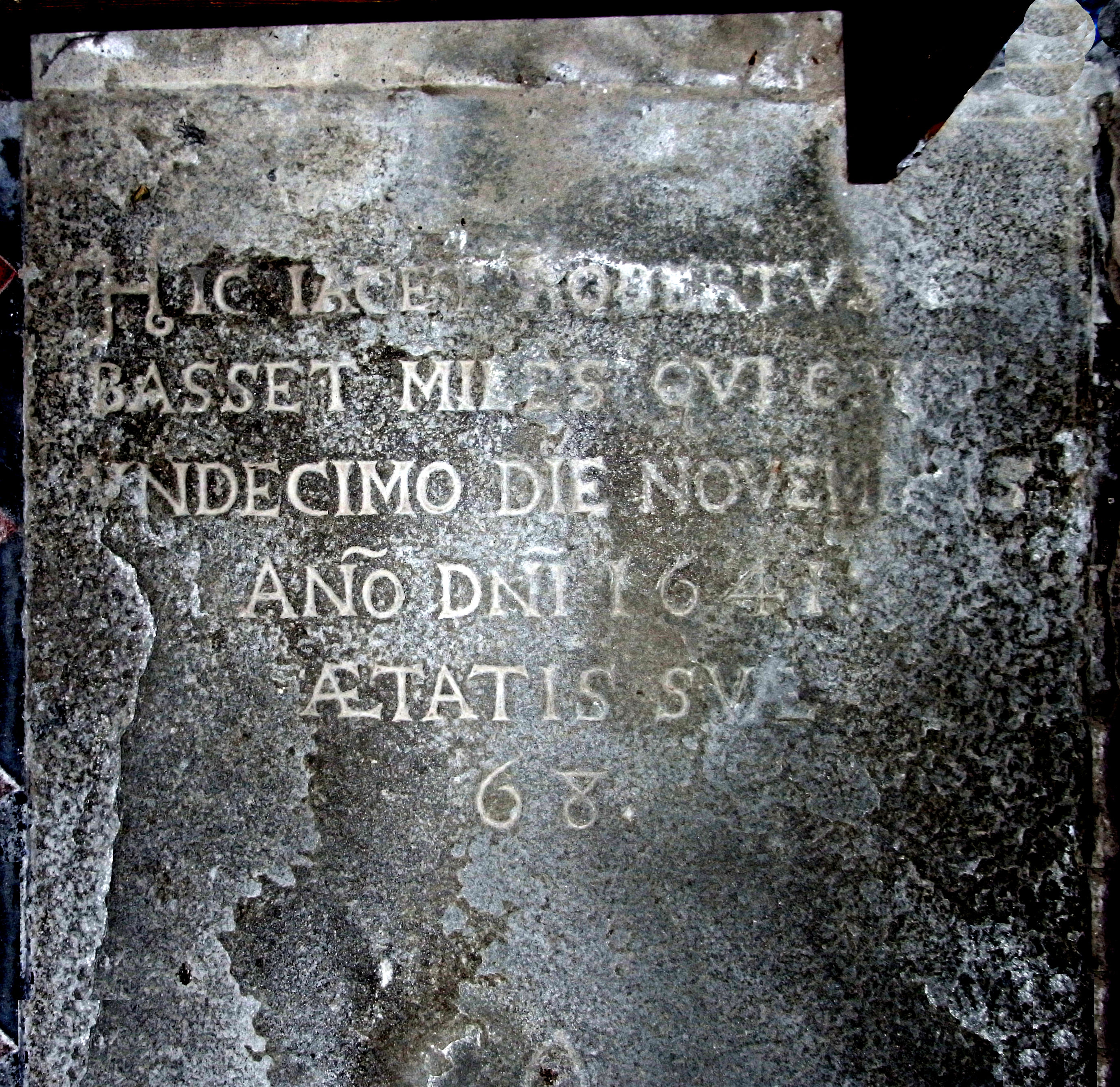 Ledger stone in Heanton Punchardon Church, Devon, to Sir Robert Basset (1573-1641), lord of the manor of Umberleigh and lord of the manor of Heanton Punchardon, MP for Plymouth in 1593. He died on 11th November 1641 aged 68 and was buried in the Basset Chapel (now the vestry) of Umberleigh Church, in the floor of which survives his plain ledger stone inscribed in Latin as follows: Hic jacet Robertus Basset, Miles, qui (obiit) undecimo die Novembris An(n)o D(omi)ni 1641 aetatis suae 68 ("Here lies Robert Basset, Knight, who died on the 11th day of November in the year of Our Lord the 1641st, of his age the 68th")